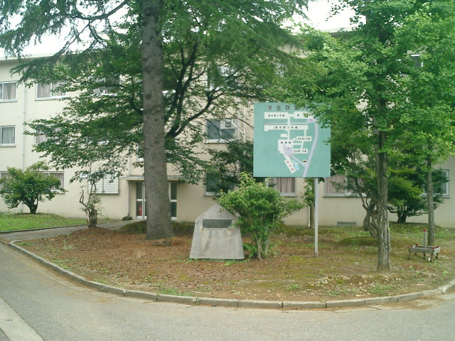 Kōshi Dormitory, Nagaoka CT